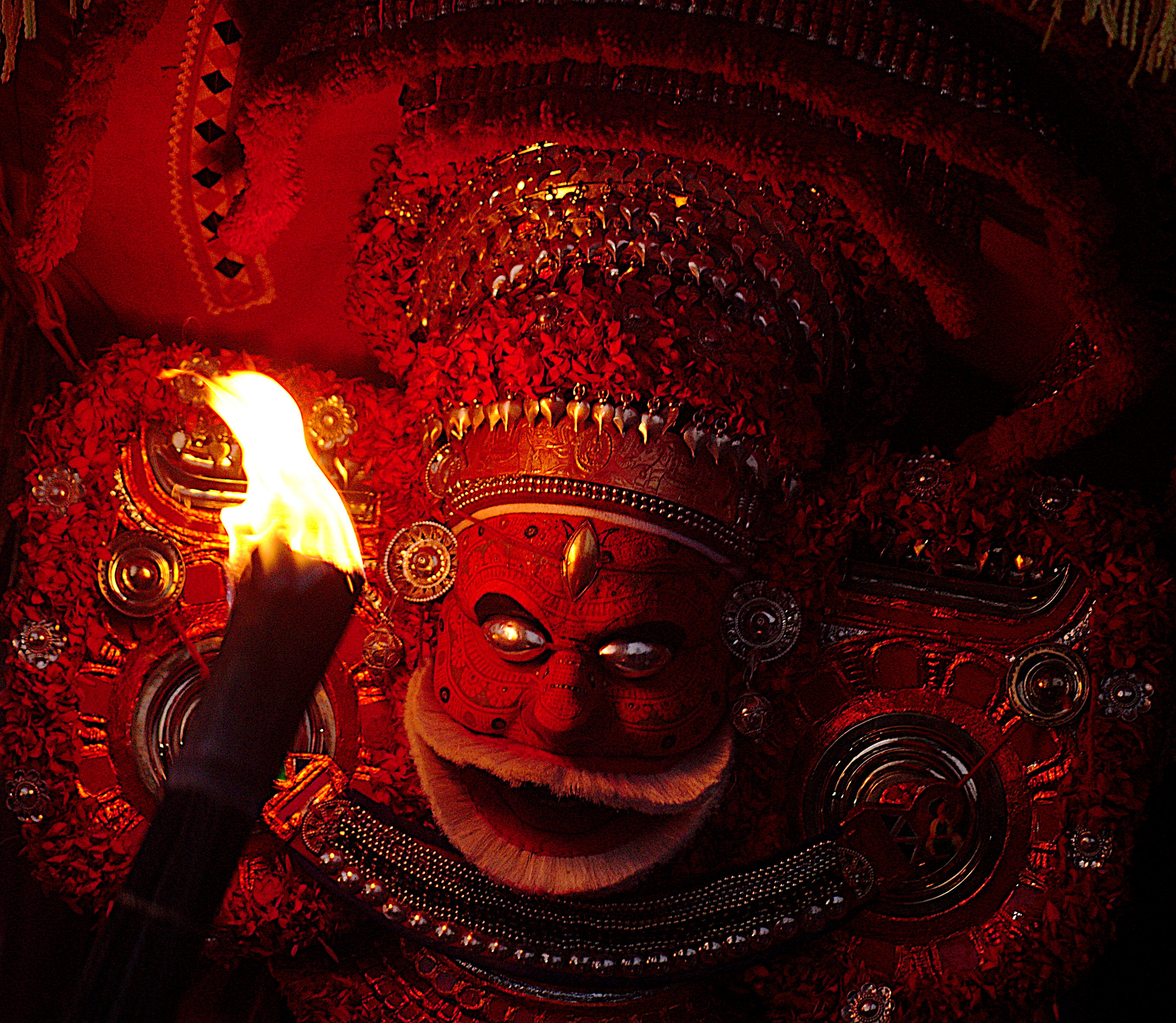 Vayanattu kulavan theyyam at Neeliyath Vayanattu kulavan devasthanam Kannur